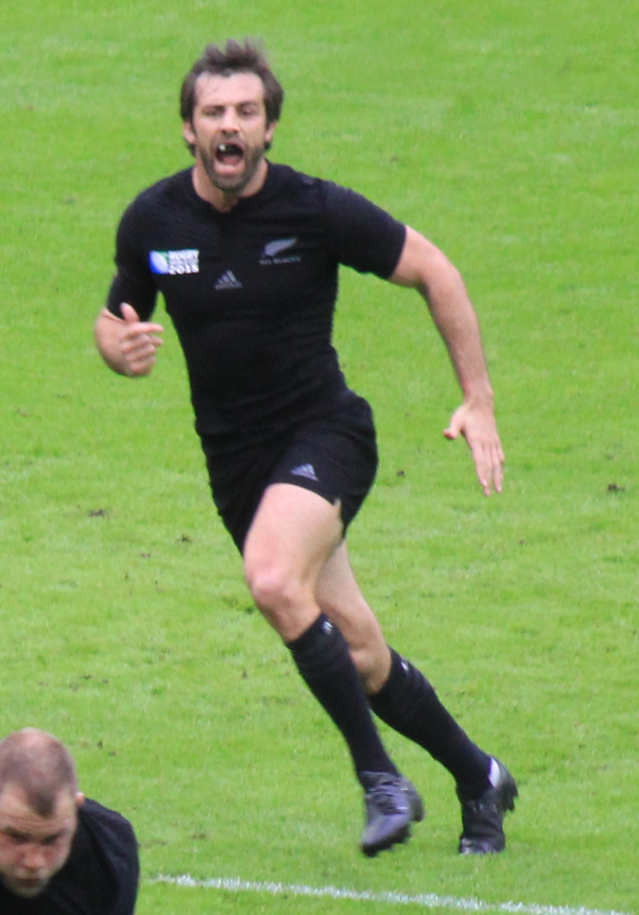 New Zealand international rugby union footballer Conrad Smith playing in 2015 Rugby World Cup game New Zealand vs Argentina at Wembley Stadium in London.